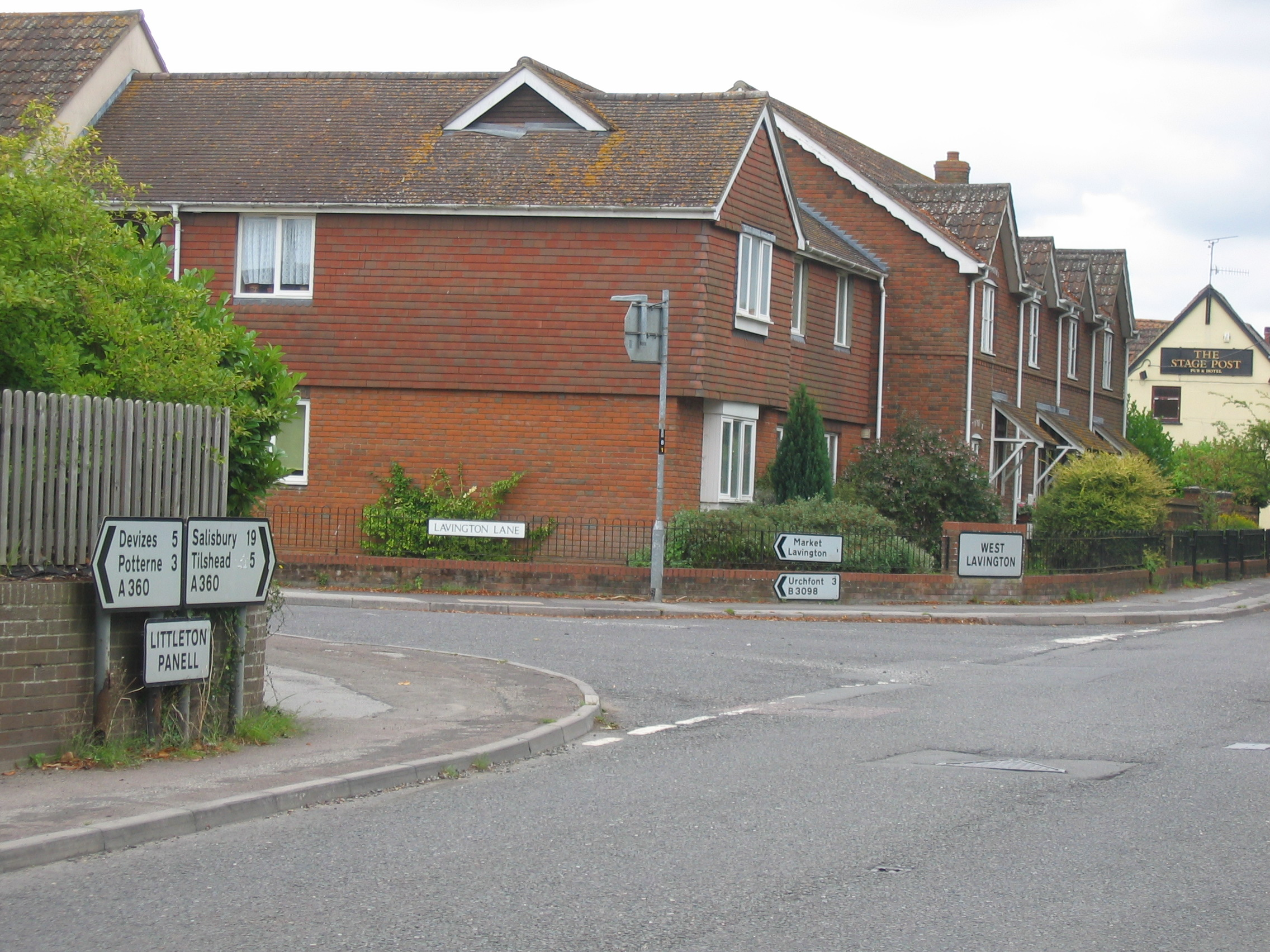 Lavington Lane separates Littleton Panell from West Lavington, Wiltshire A360/B3098 road crossing